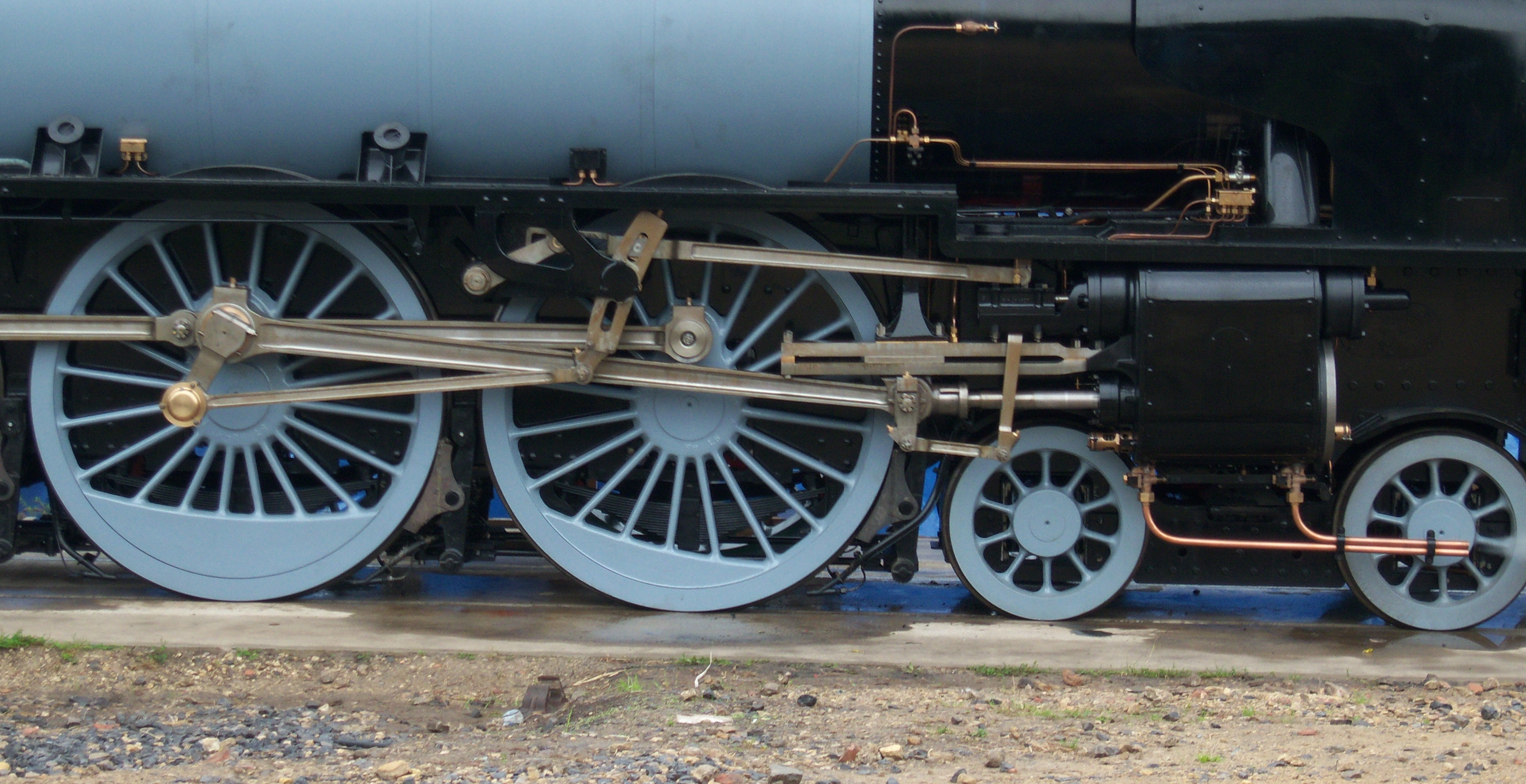 60163 Tornado motion